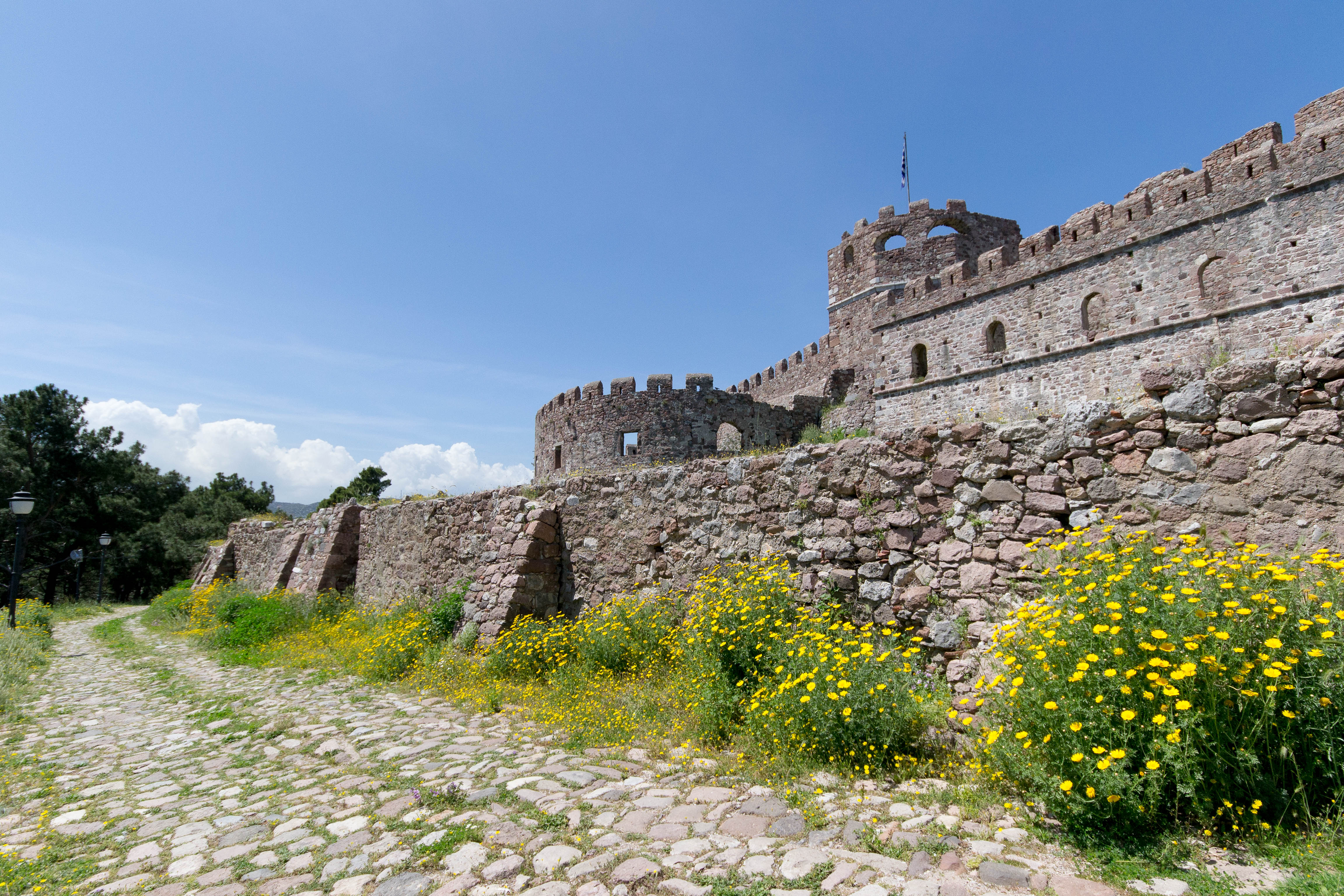 Fortress of Mytilini - the outer walls